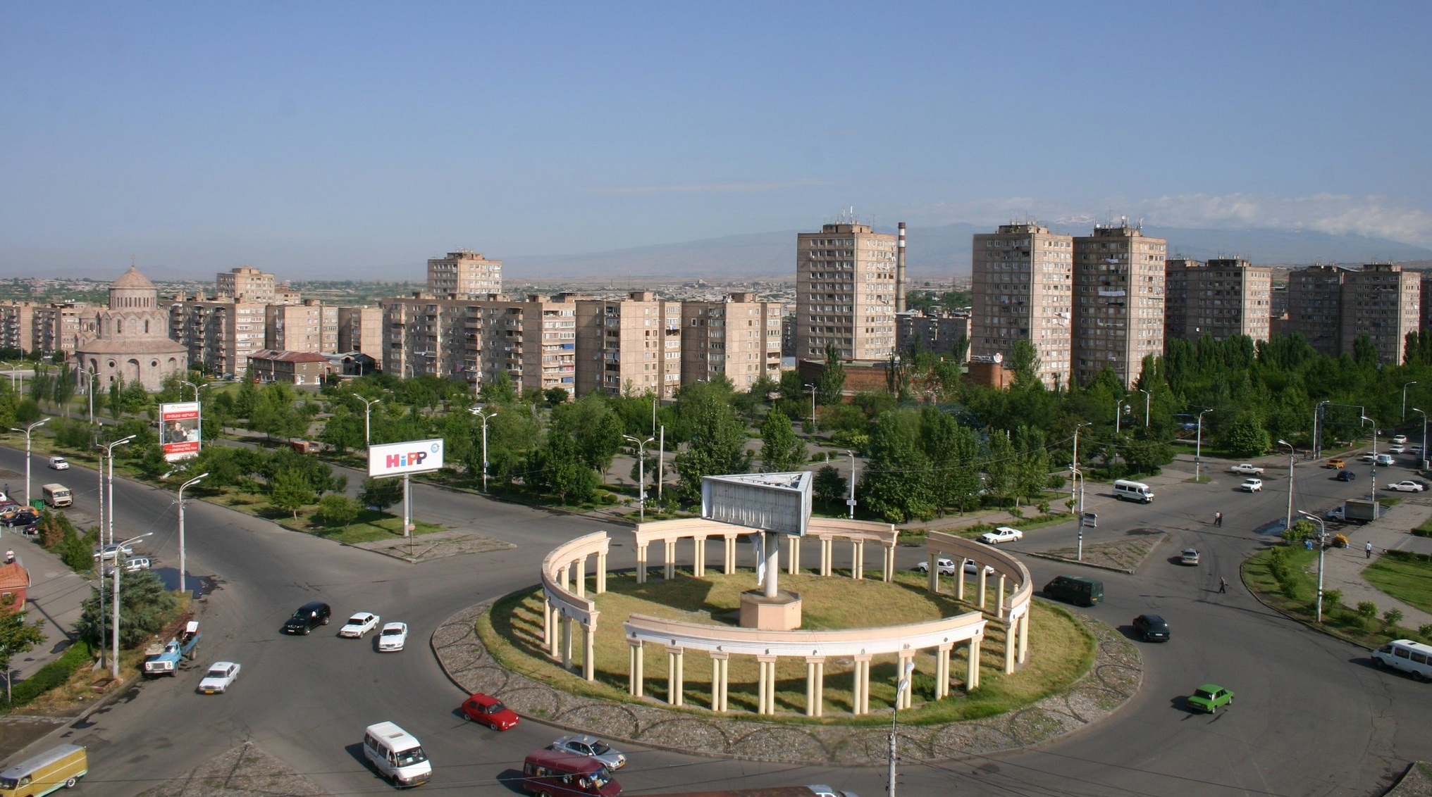 Malatia-Sebastia district of Yerevan, general view